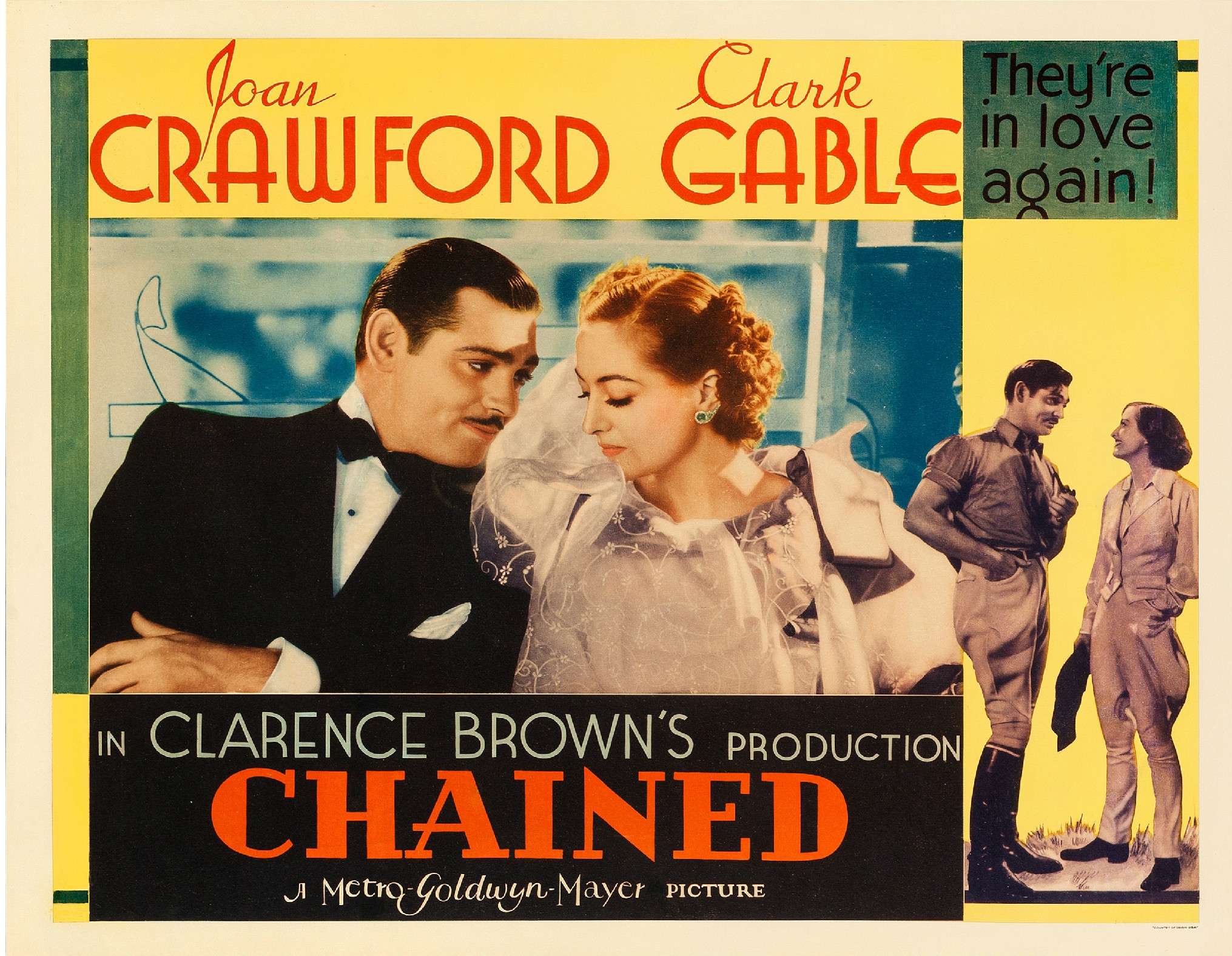 Poster for the 1934 film Chained.